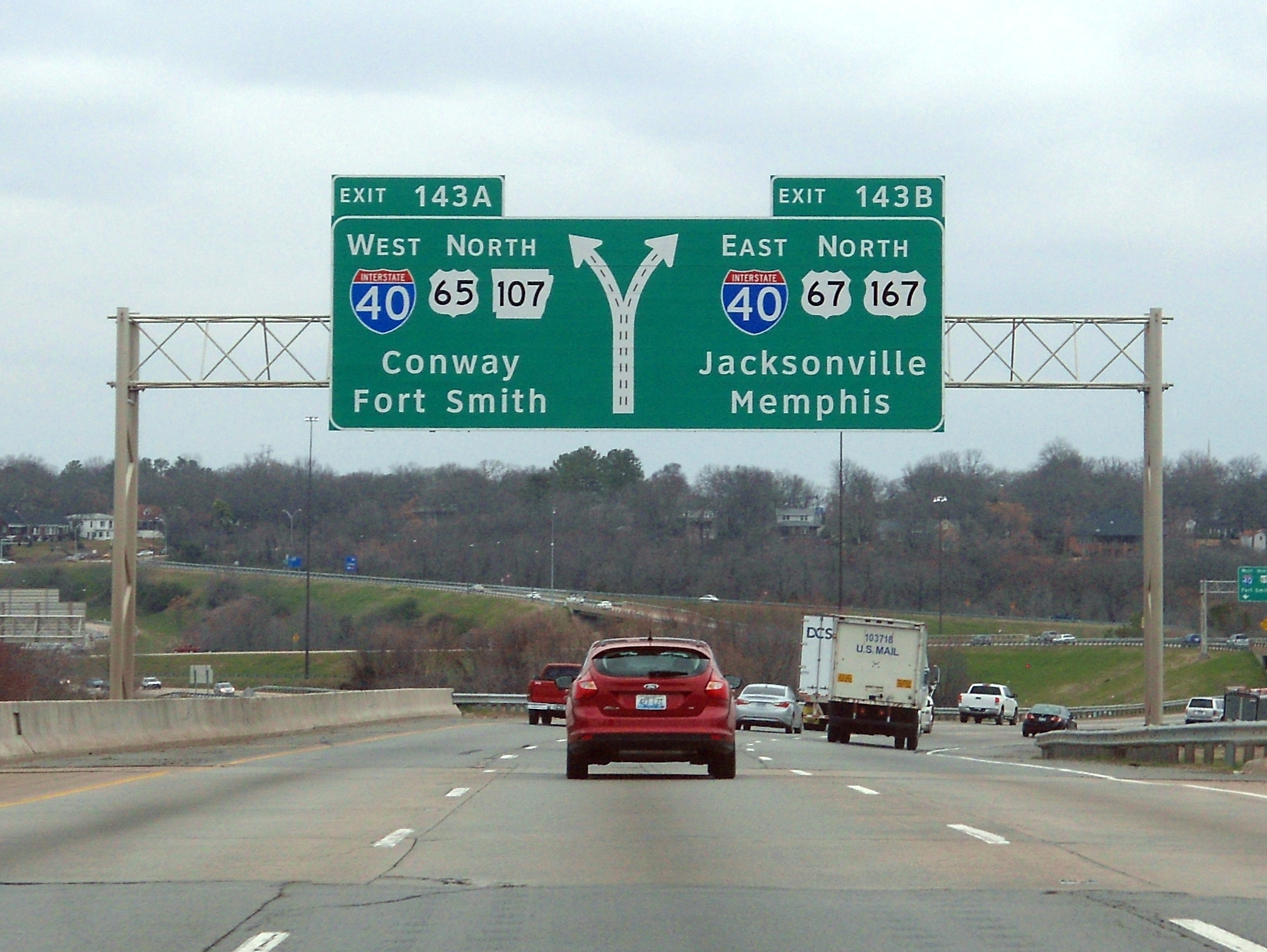 Interstate 30 ends at this exit, leading traffic I-40 either east or west.